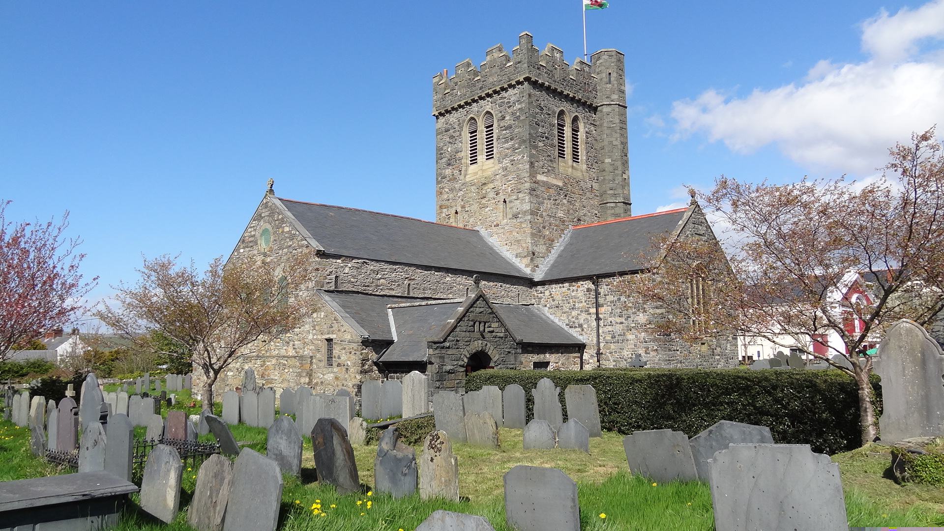 Cadfan's church, Tywyn, Gwynedd